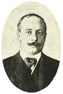 José Marnoco e Sousa (1869-1916), cabinet minister in the last Portuguese Constitutional Monarchy government, in 1910.